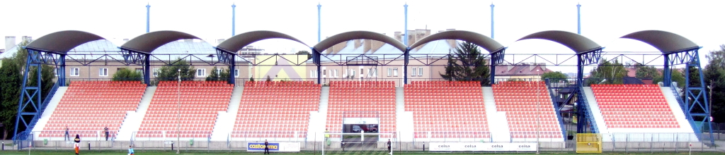 Sports City Stadium "KSZO" in Ostrowiec Swietokrzyski, the eastern stand